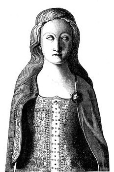 Anne of Bohemia